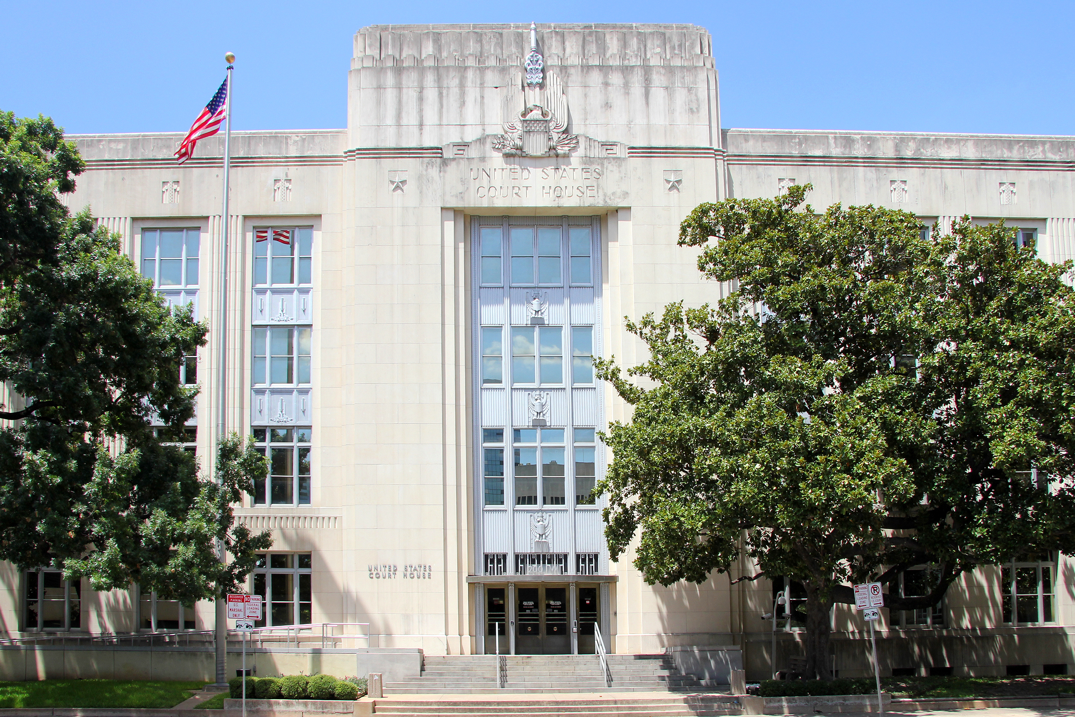 The United States Courthouse in downtown Austin, Texas was built in 1935 with funding provided by the Public Works Administration. The firm of C.H. Page & Son of Austin designed the building. The courthouse was listed on the National Register of Historic Places on April 25, 2001.